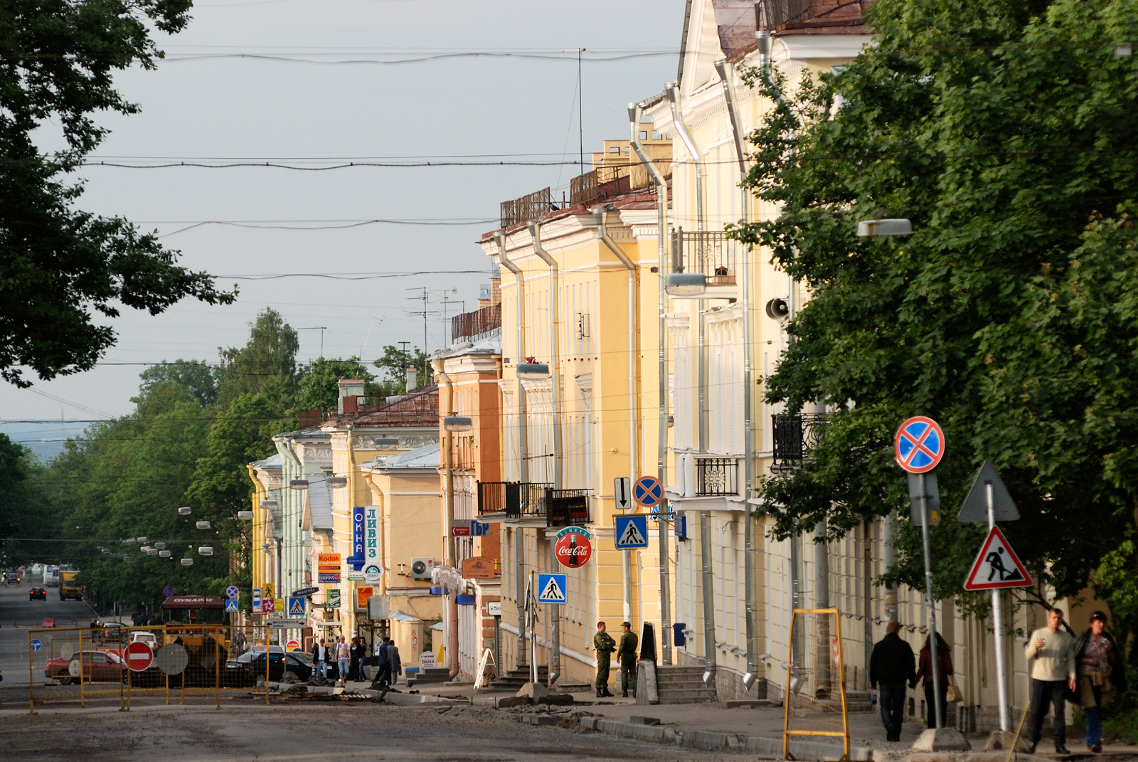 Pushkin town center (near Saint-Petersburg)